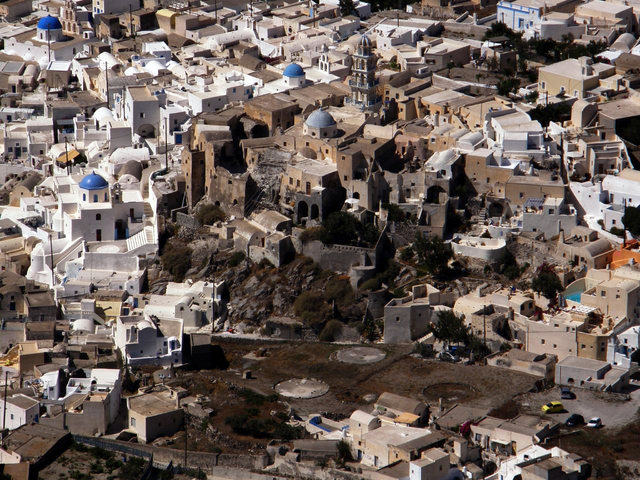 The Casteli (small castle) of Emporio, Santorini. Photo taken on 13.08.2007 Reached #111 in Explore...